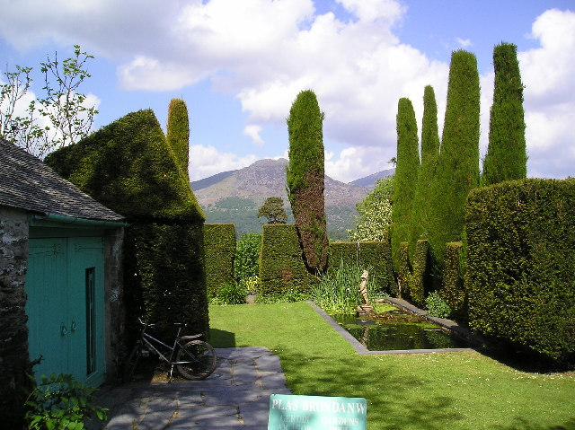 Plas Brondanw Garden. The garden created between 1904 and 1978 around his own home by the architect Clough Williams-Ellis takes full advantage of its mountainous surroundings